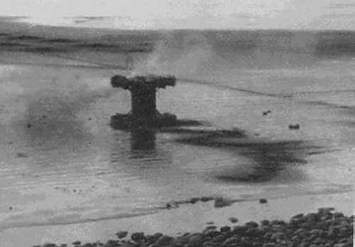 Panjandrum, a World War II-era experimental British weapon. Taken after trials at Westward Ho!, Devon.